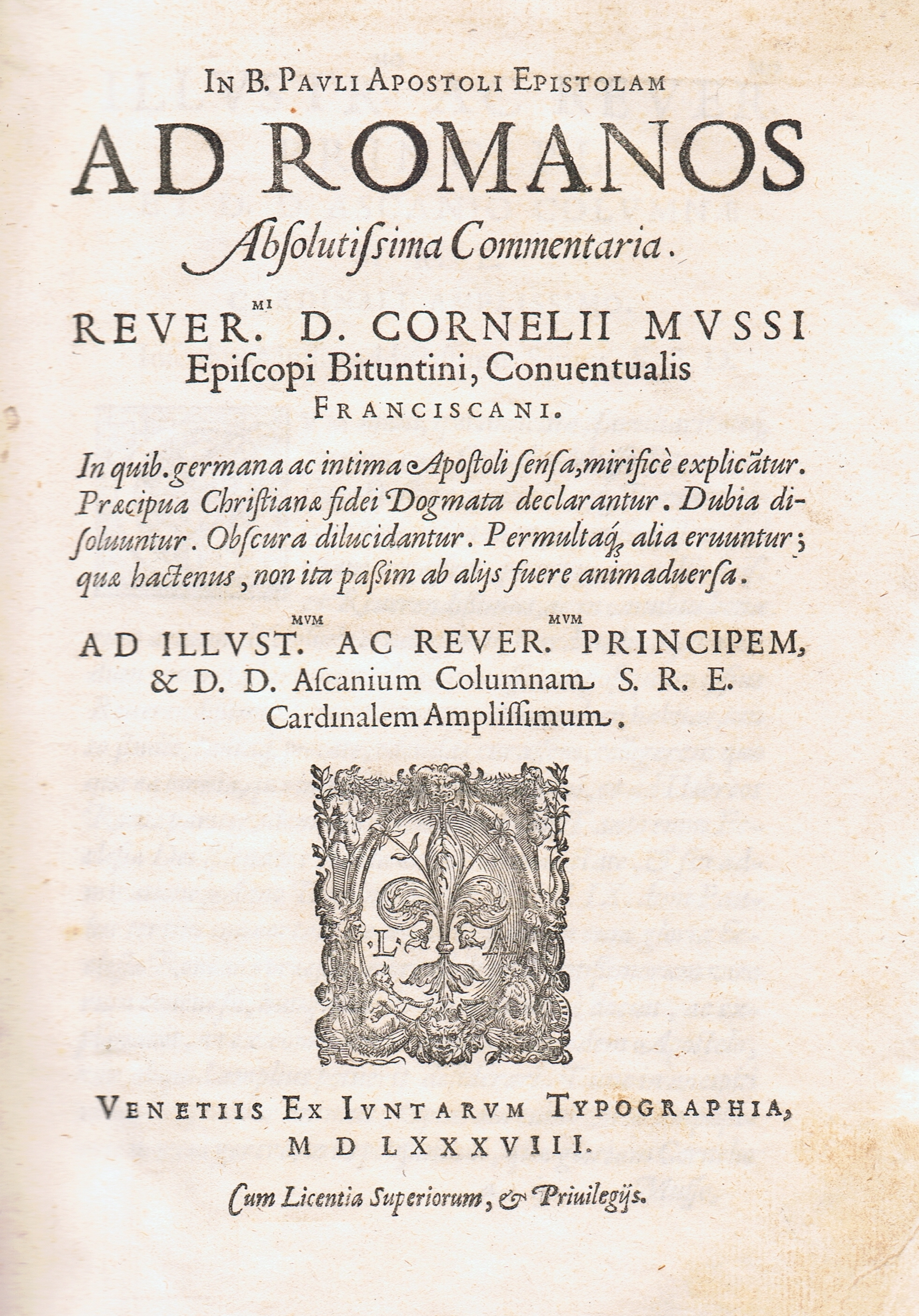 Scanned image of the title page of Cornelio Musso's "Comment. in epist. ad Romanos" (Venice, 1588)